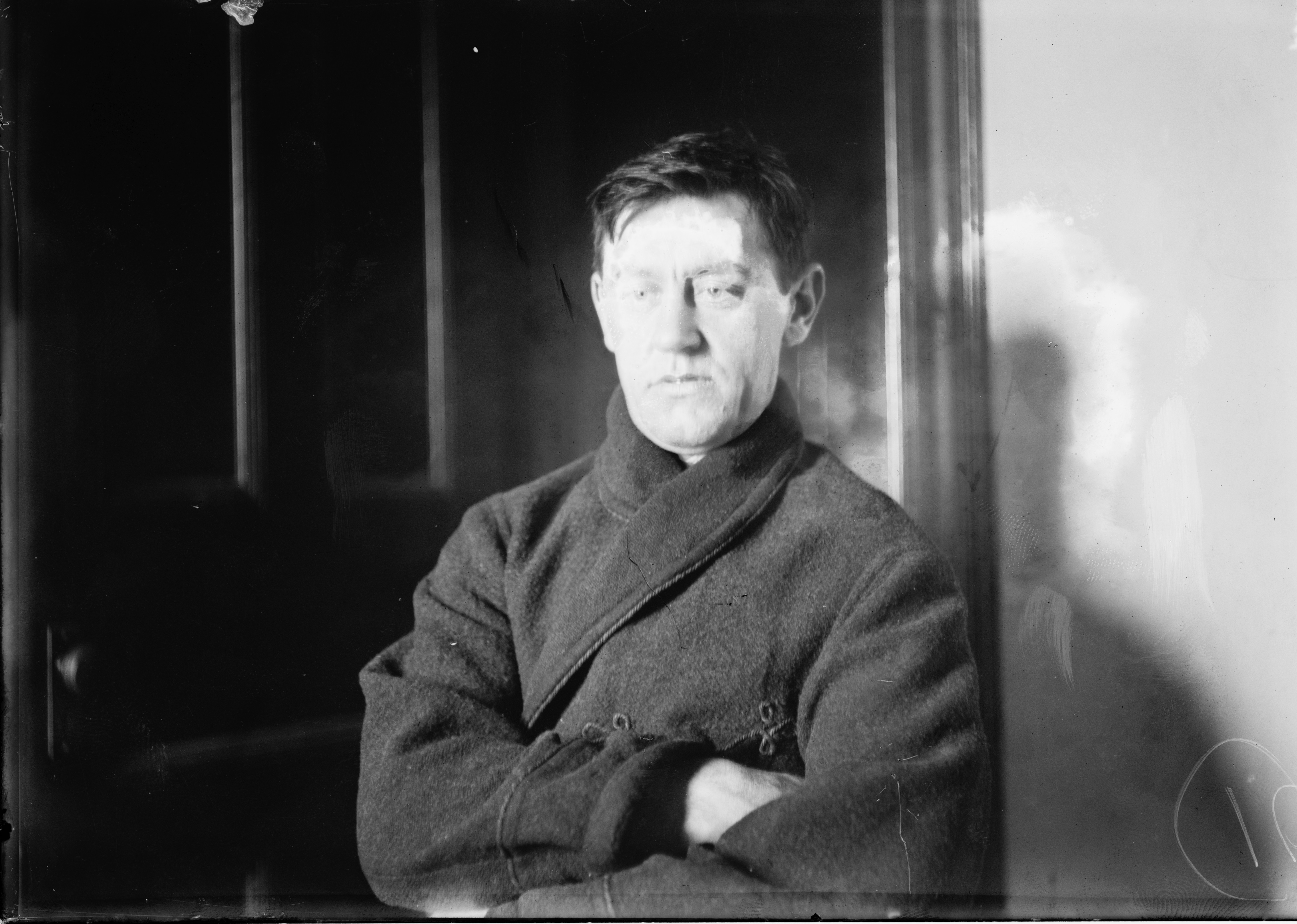 James Henri 'Jim' Moran, American track racer